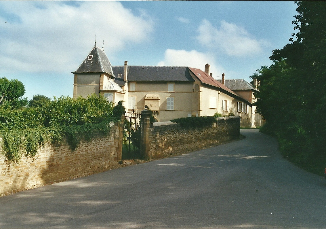 Rear view of Terrebasse Castle in Ville-sous-Anjou